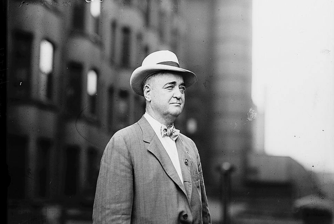 Bat Masterson (1853 – 1921)